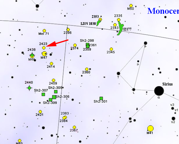 Map of NGC 2423